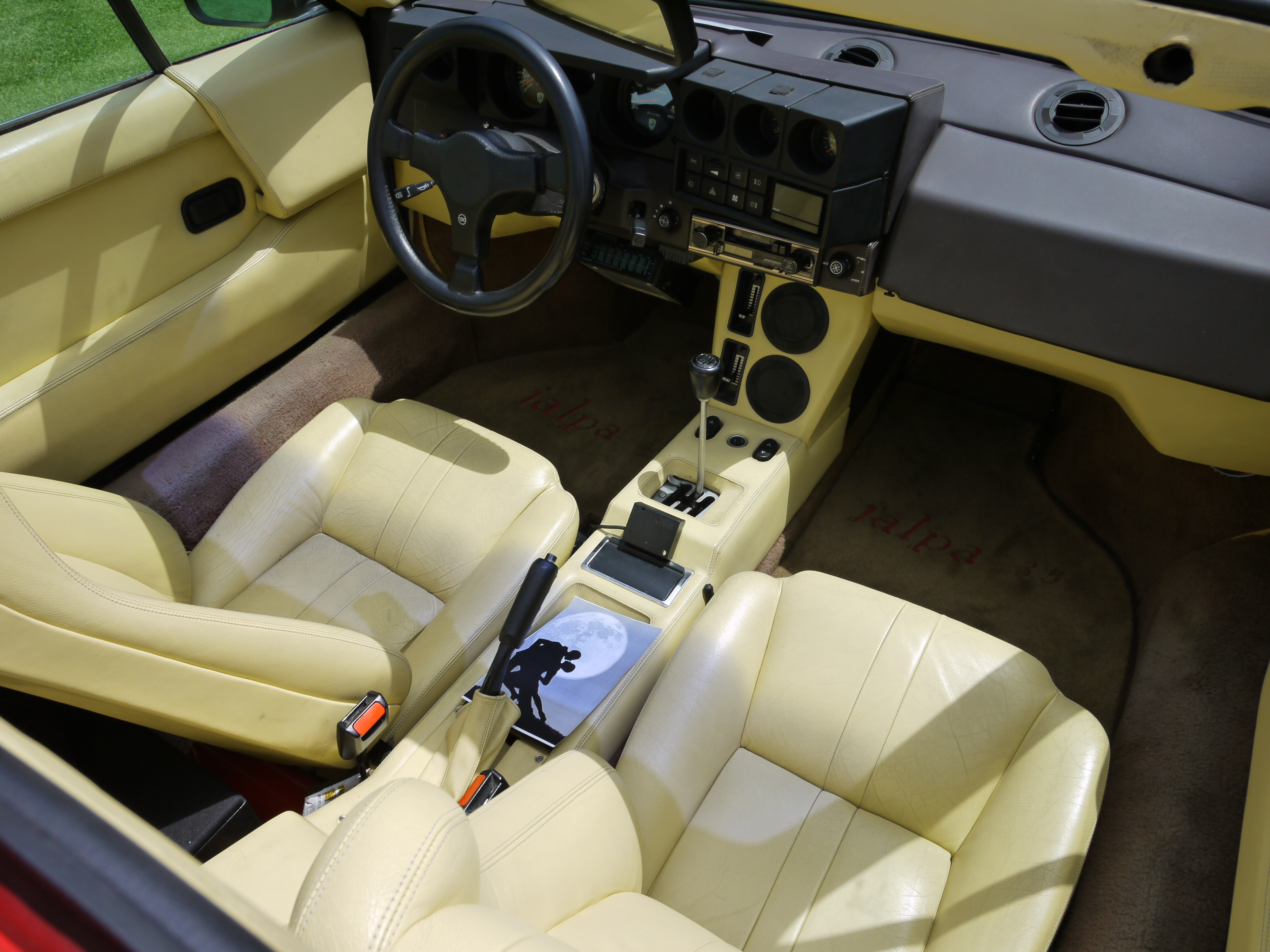 Lamborghini Jalpa interior. Photograph taken at 2010 Concorso Italiano.